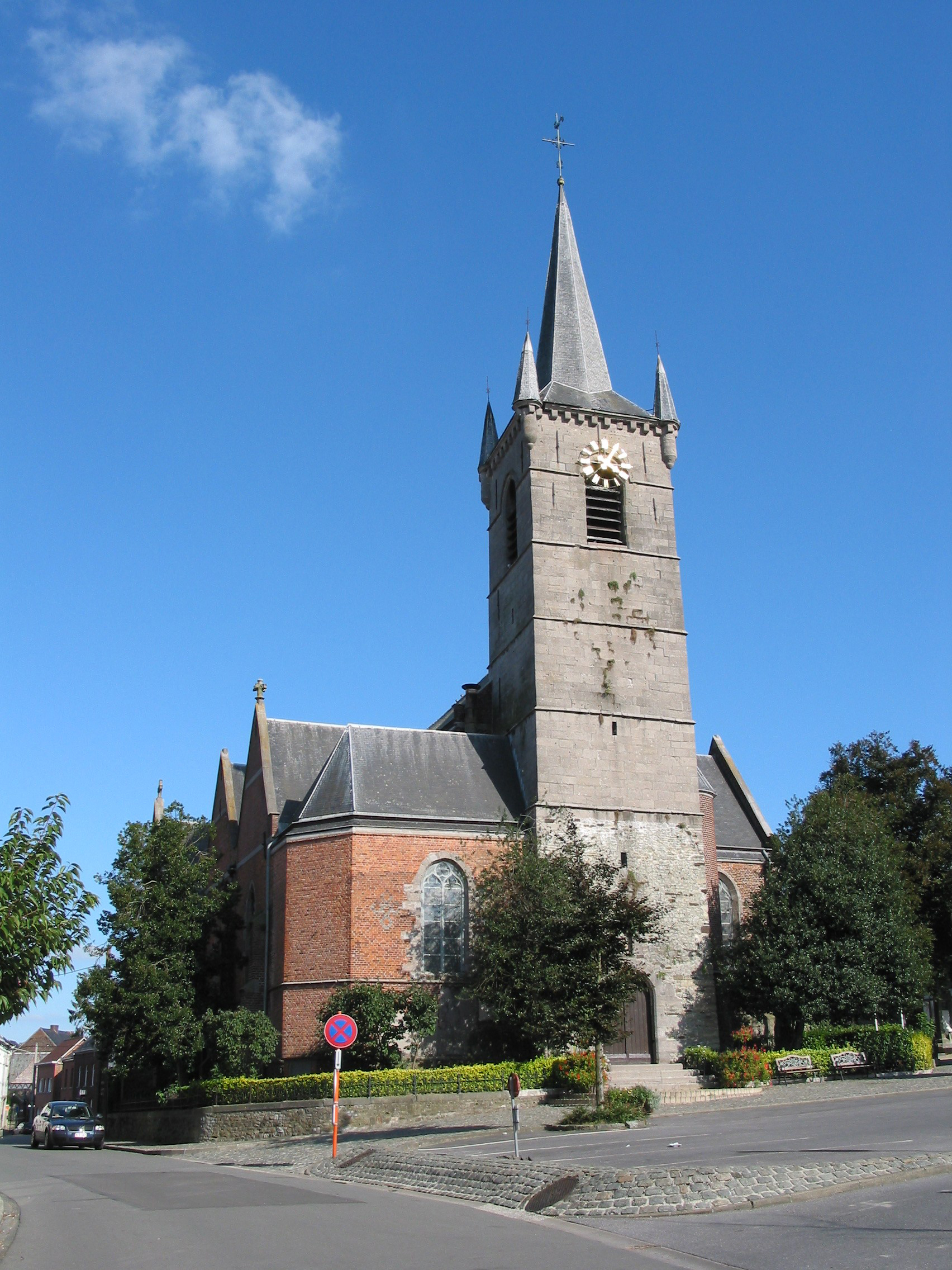 Flobecq (Belgium), St. Luke's Church (XIII/XVIth centuries).